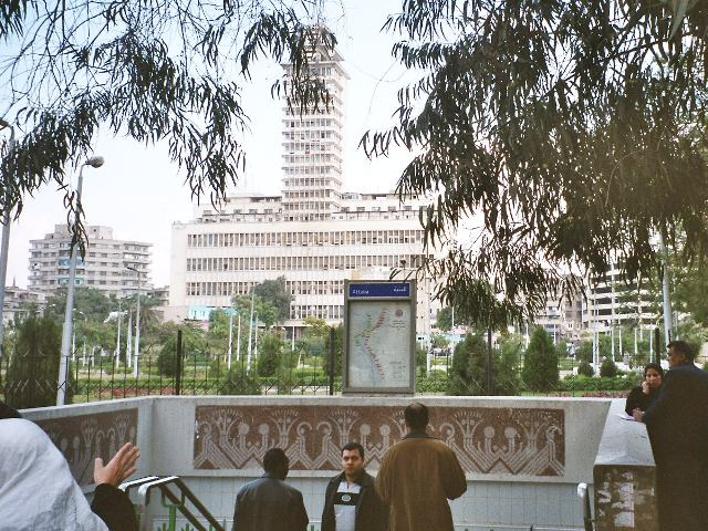 Cairo Metro. Entrance to Ataba station.